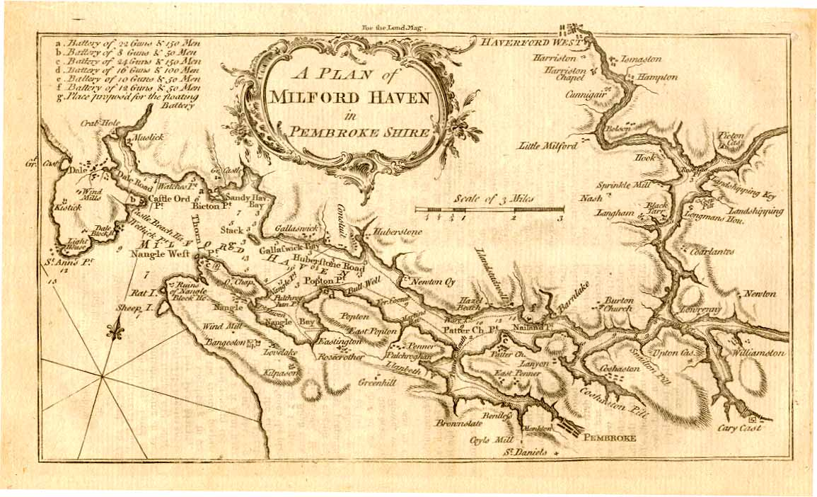 Reproduction of A Plan of Milford Haven in Pembroke Shire. 1758. From the Scot's Magazine.